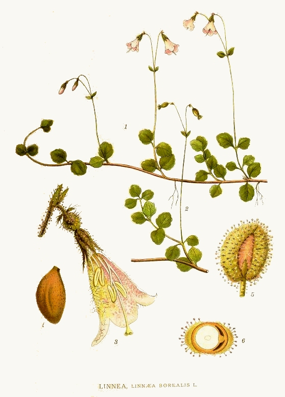 Twinflower Original Description Linnea, Linnaea borealis L.